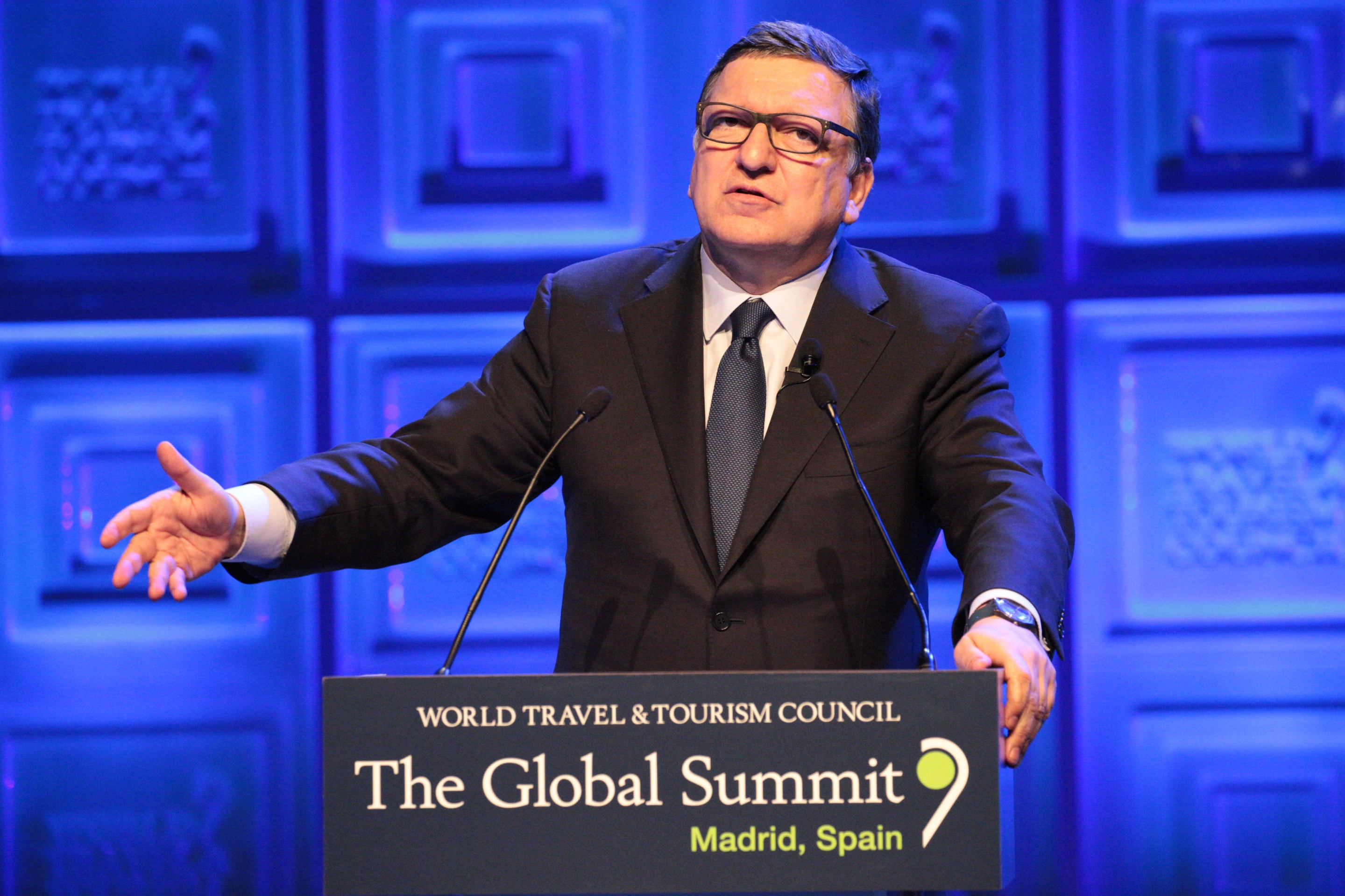 WTTC Global Summit 2015 World Travel & Tourism Council Flickr images